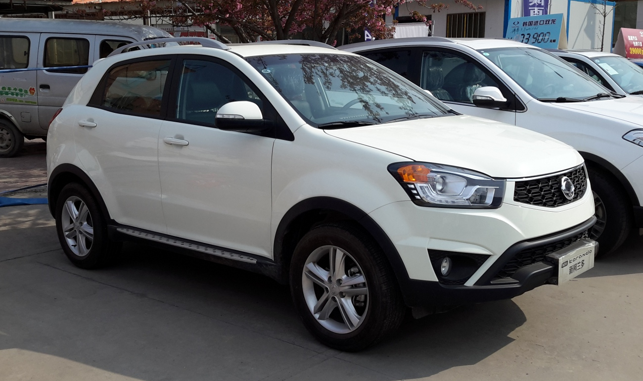 SsangYong Korando C200 facelift photographed in Xi'an, Shaanxi province, China.